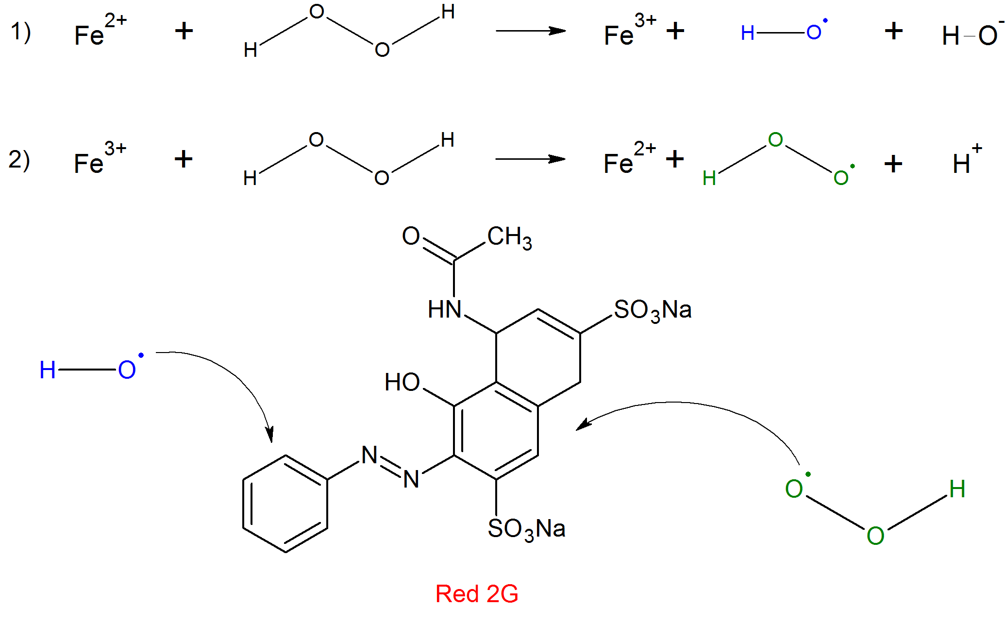 Fenton Process dye degradation